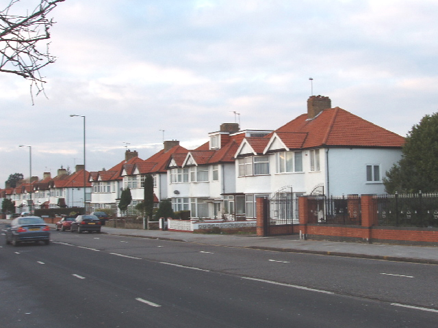 Houses in Kenton Road. Next to the Greek Orthodox Church 99031